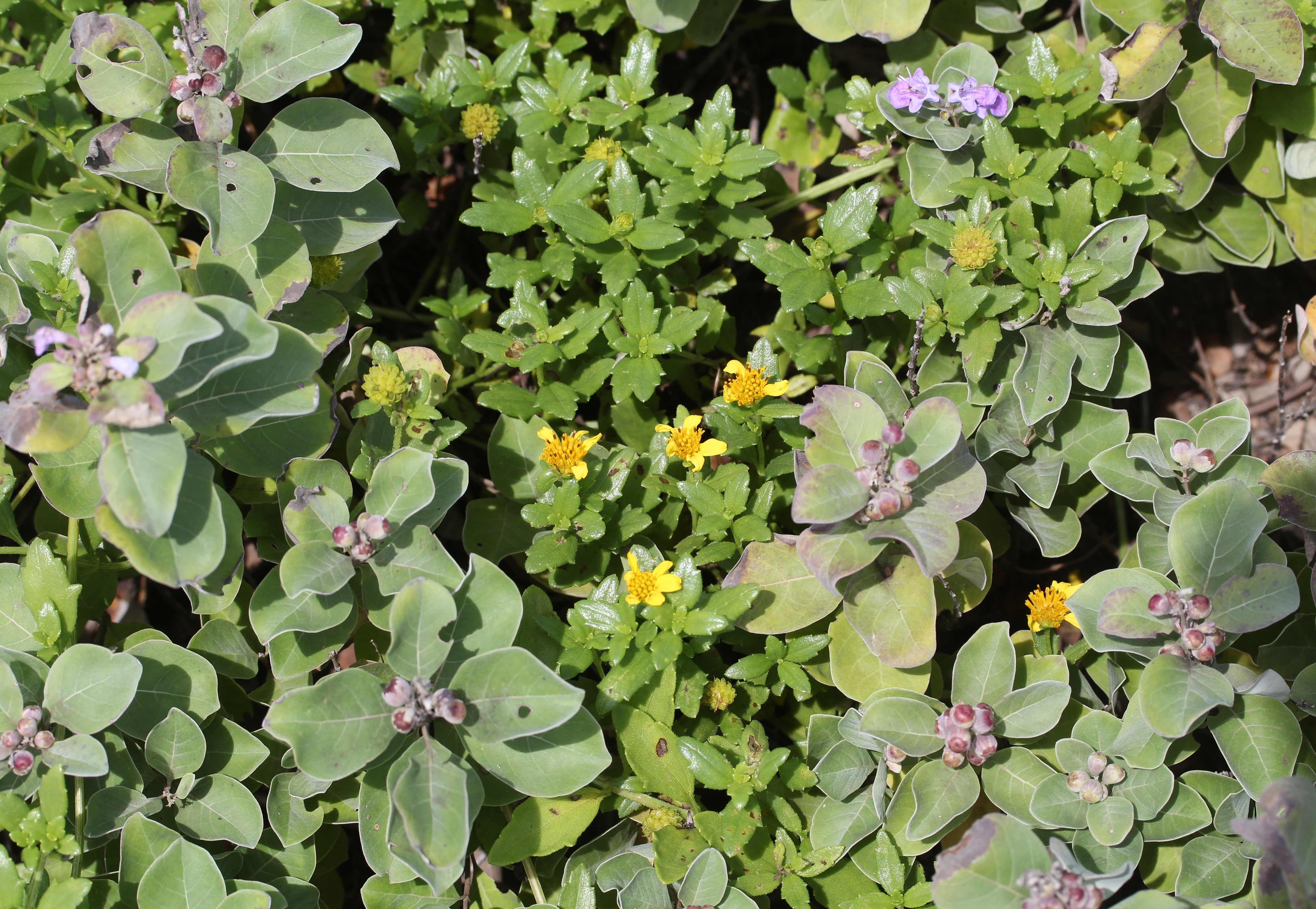 Wedelia prostrata and Vitex rotundifolia, in Cape Irago, Tahara, Aichi prefecture, Japan.